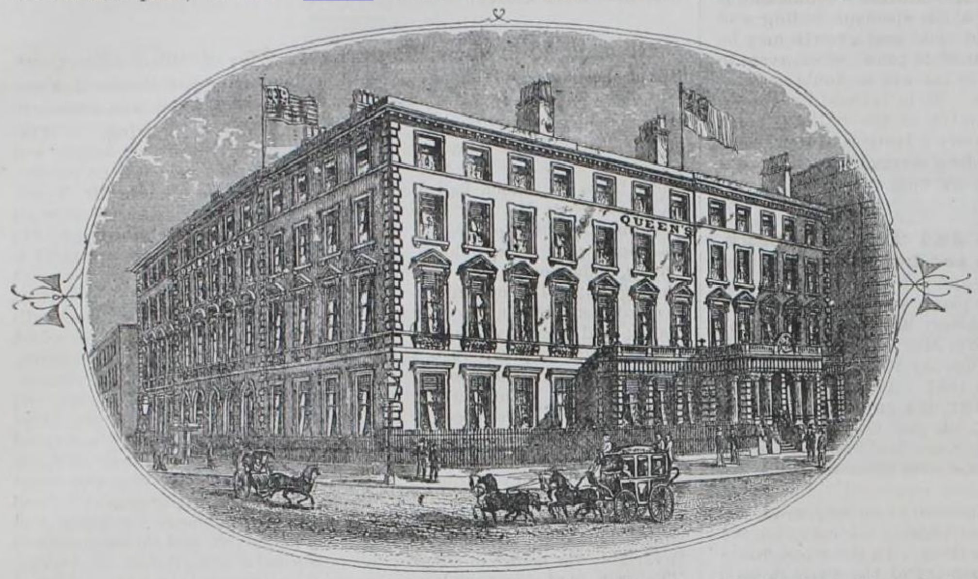 Illustration of Queen's Hotel, Manchester (1888)